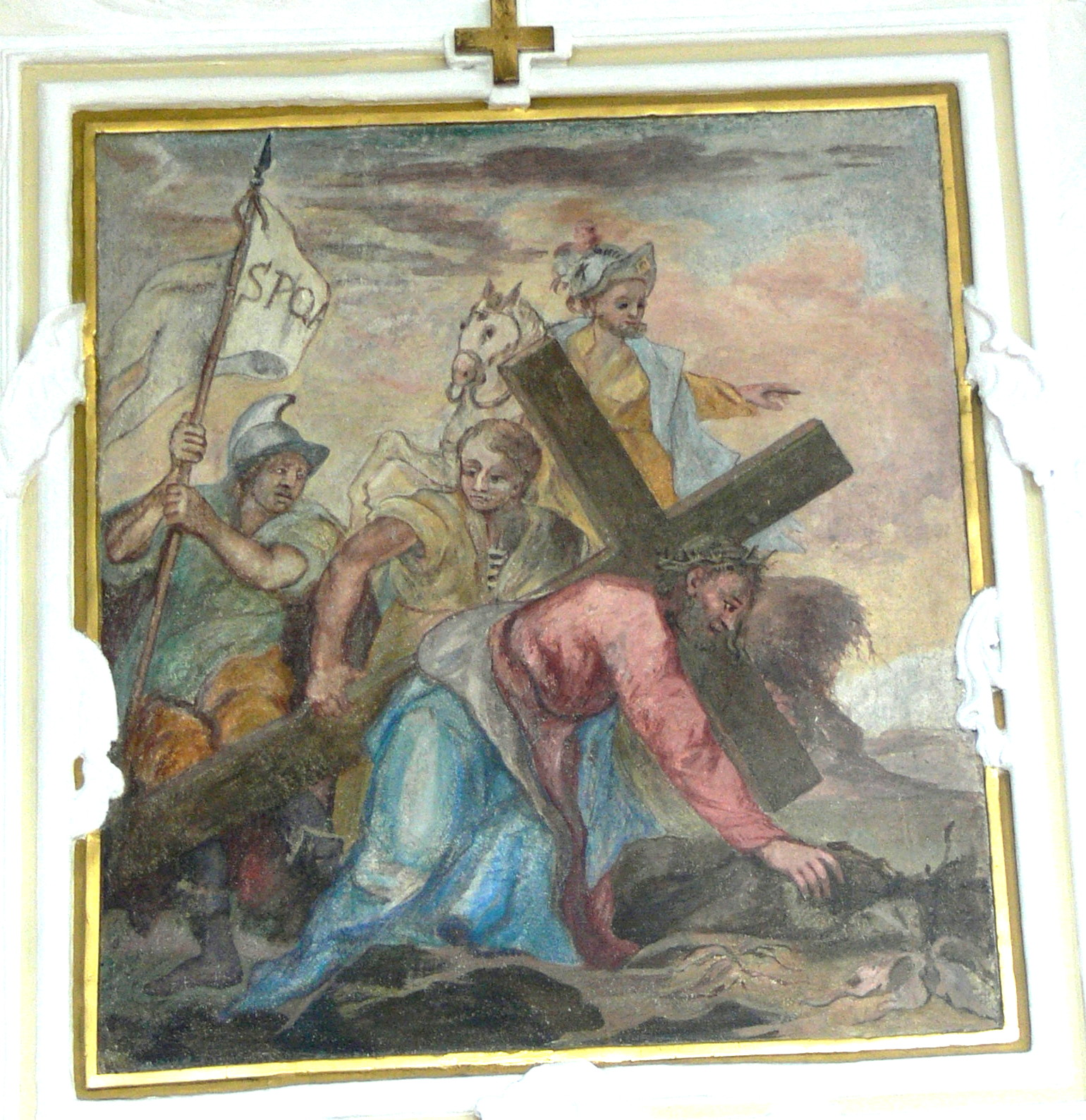 Jesus falling the second time.